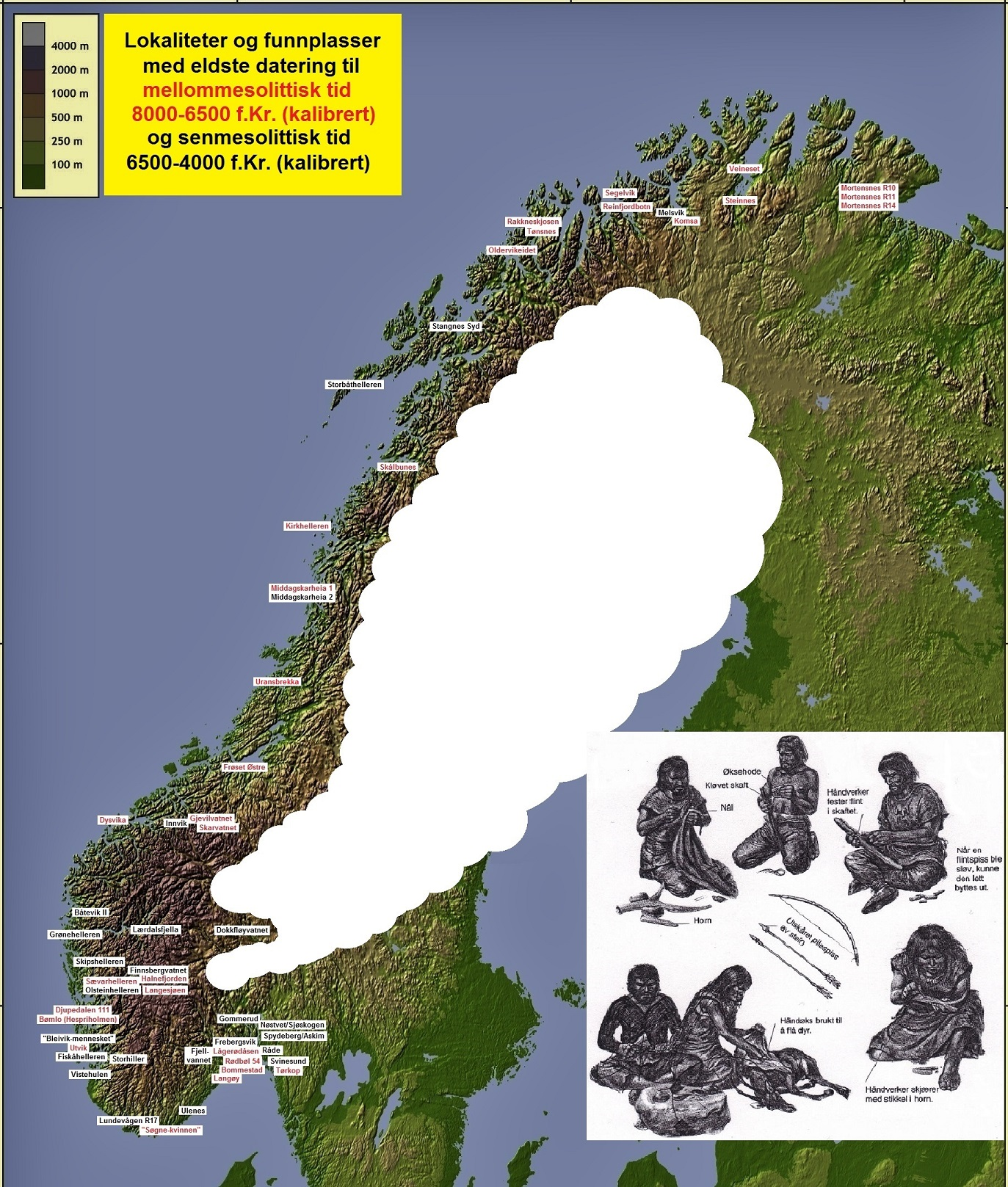 Ancient sites from the middle- and late mesolithic phase in Norway (8000-4000 BC cal.)